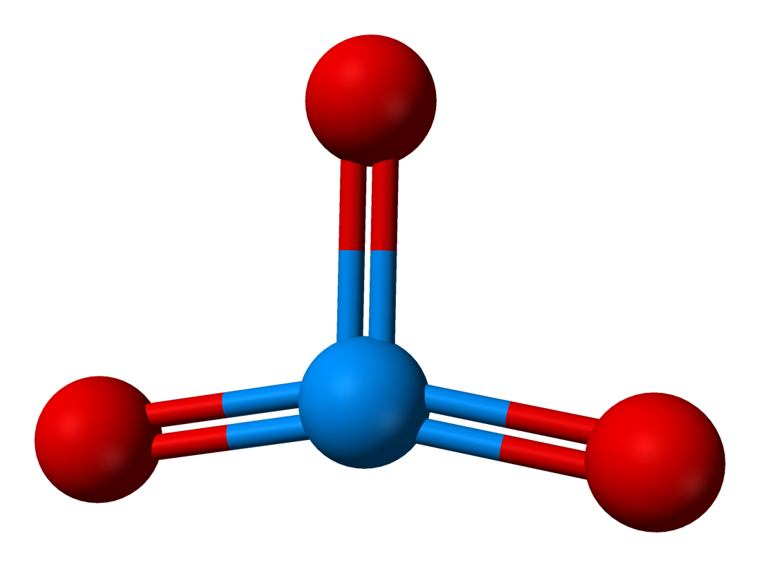 Ball-and-stick model of a uranium trioxide molecule, UO3, based on the structure calculated in Pyykkö P, Li J (1994). "Quasirelativistic pseudopotential study of species isoelectronic to uranyl and the equatorial coordination of uranyl". Journal of Physical Chemistry 98: 4809-4813.